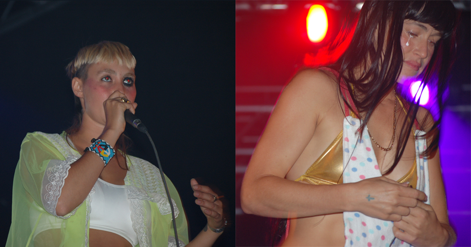 CocoRosie in Flow Festival in Helsinki